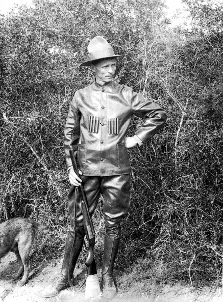 Major Philip Jacobus Pretorius armed for an elephant hunt. Leather suit and .475 cordite Express rifle, "a treasure of a gun" (Pretorius 1947). Addo bush in the background. (Photo Homer LeRoy Shantz, No. 36191, K-1-1919, 5 September 1919)